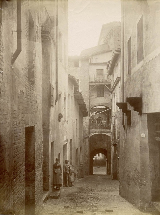 Paolo Lombardi (1827-1890), "Siena. Jewish ghetto".